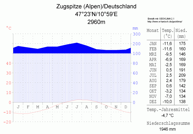 climate chart in the format by Walther and Lieth, metric, °Celsisus and millimeters, made with Geoklima 2.1